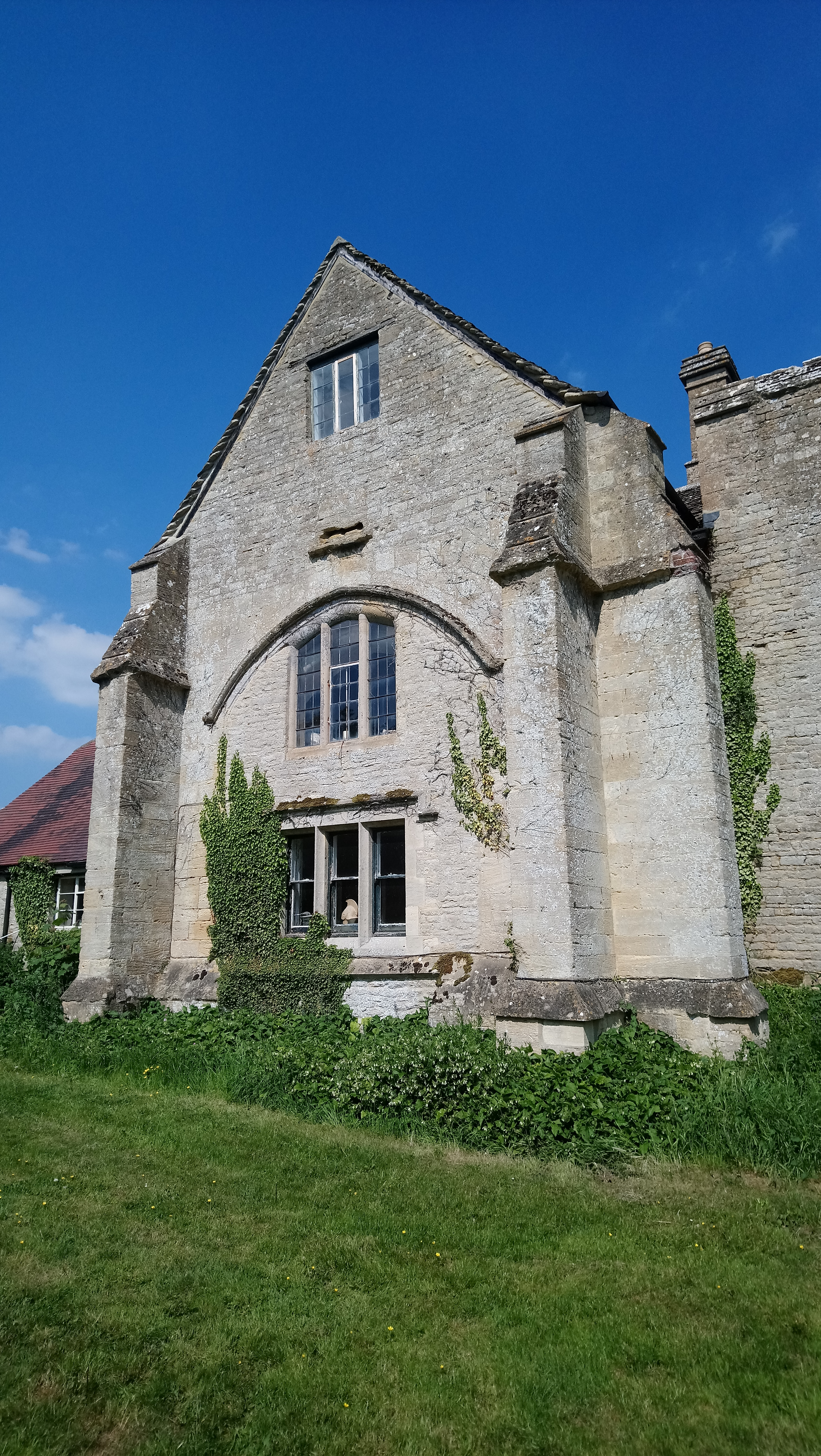 Ham Court Wikidata has entry Q17531703 with data related to this item.